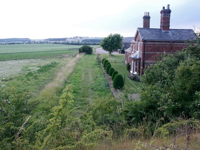 Former Railway Station, Donington on Bain The station is on the former GN branch line, from Bardney to Louth, and opened on 28-Jun-1876 for goods trains and 01-Dec-1876 for passenger traffic. The line closed at Donington on Bain exactly 72 years later. The station is now a private dwelling.